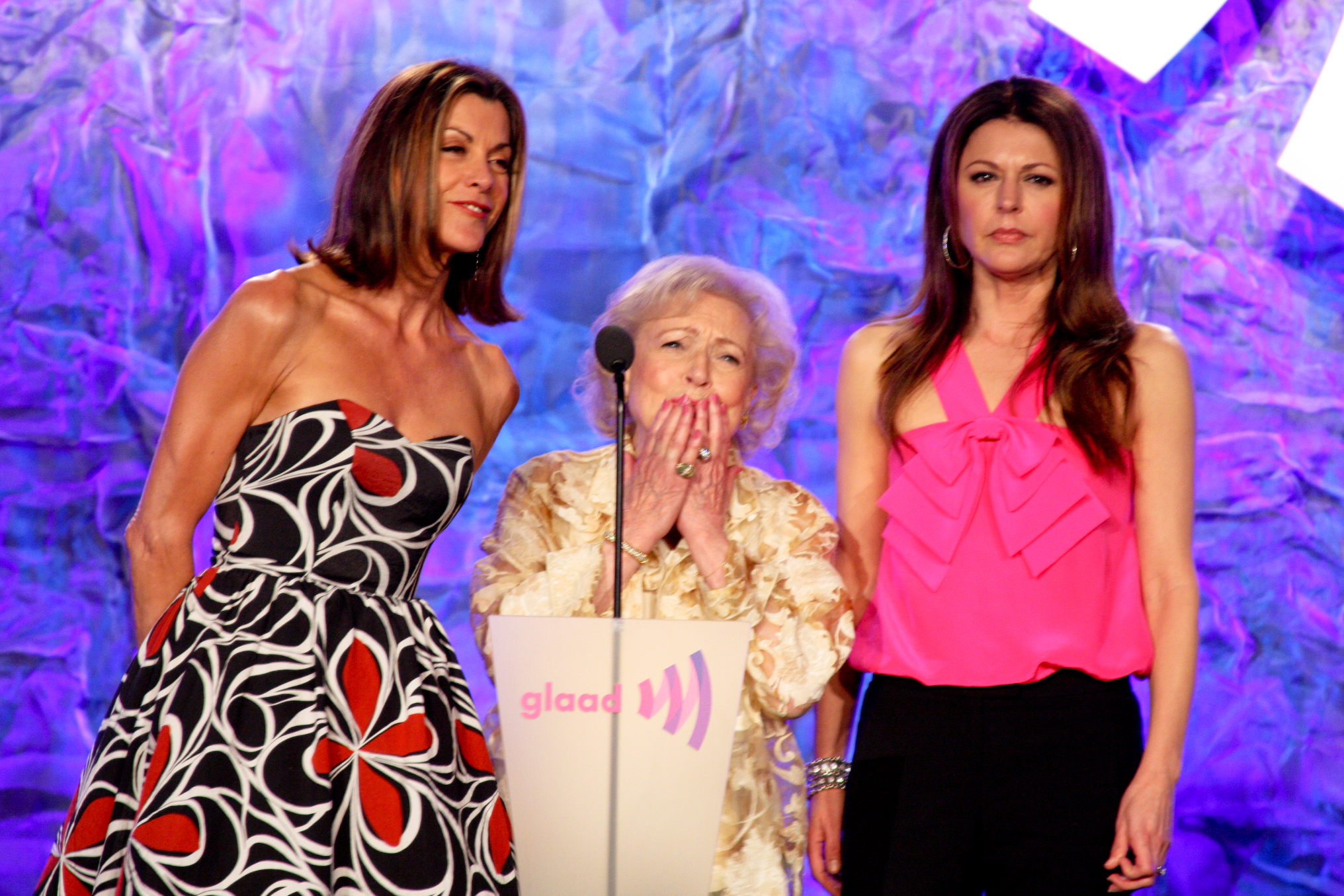 Malick, White and Leeves at the 25th GLAAD Media Awards.